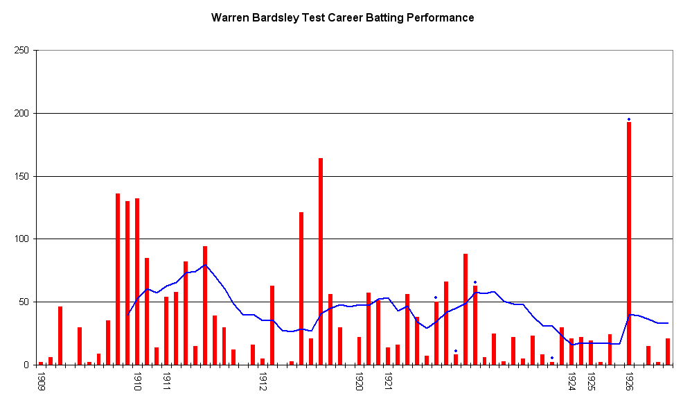 This graph details the Test Match performance of Warren Bardsley. It was created by Raven4x4x. The red bars indicate the player's test match innings, while the blue line shows the average of the ten most recent innings at that point. Note that this average cannot be calculated for the first nine innings. The blue dots indicate innings in which Bardsley finished not-out. This graph was generated with Microsoft Excel 2002, using data from Cricinfo and .au.